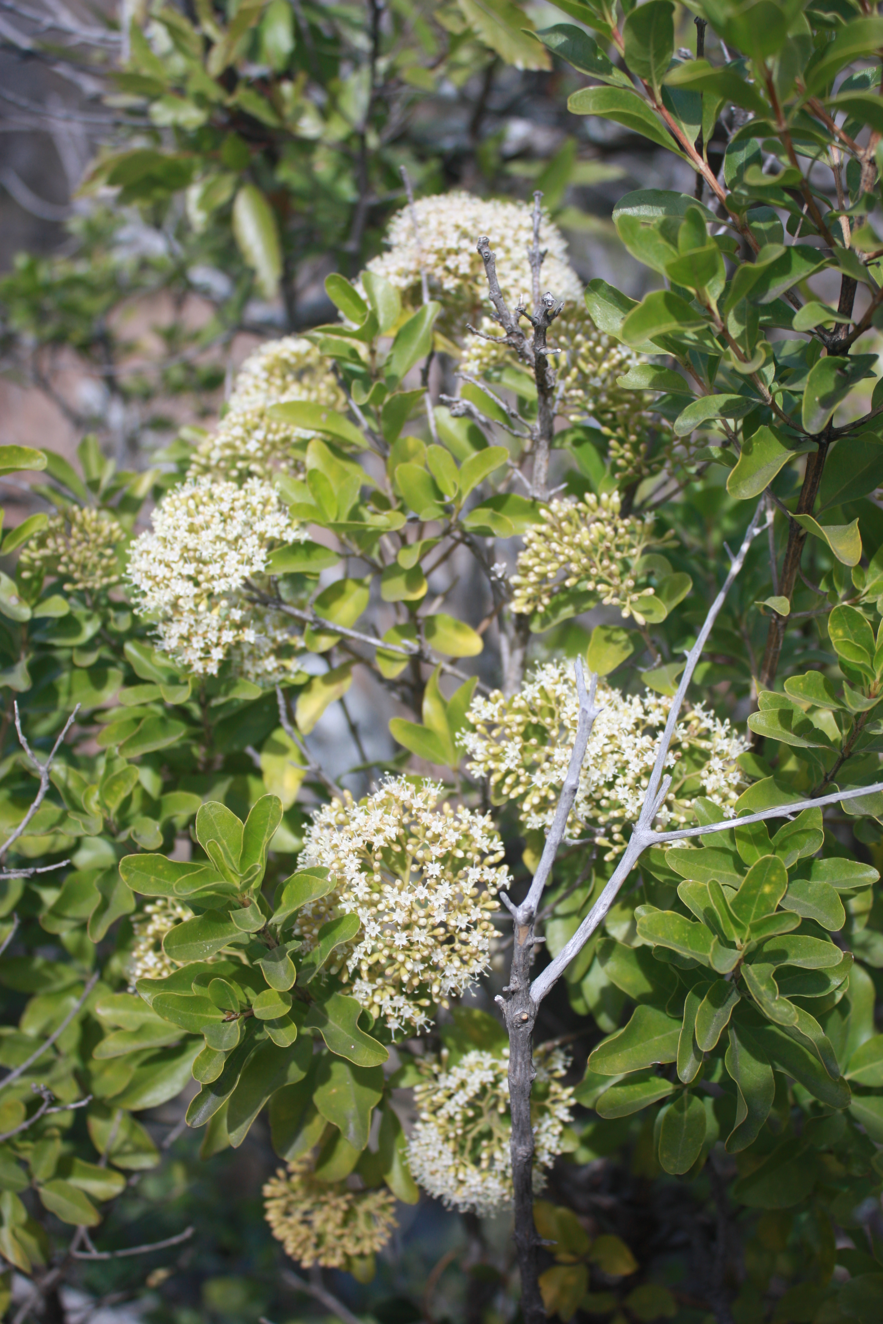 Nuxia congesta, Mountain Sanctuary Park, Magaliesberg, South Africa